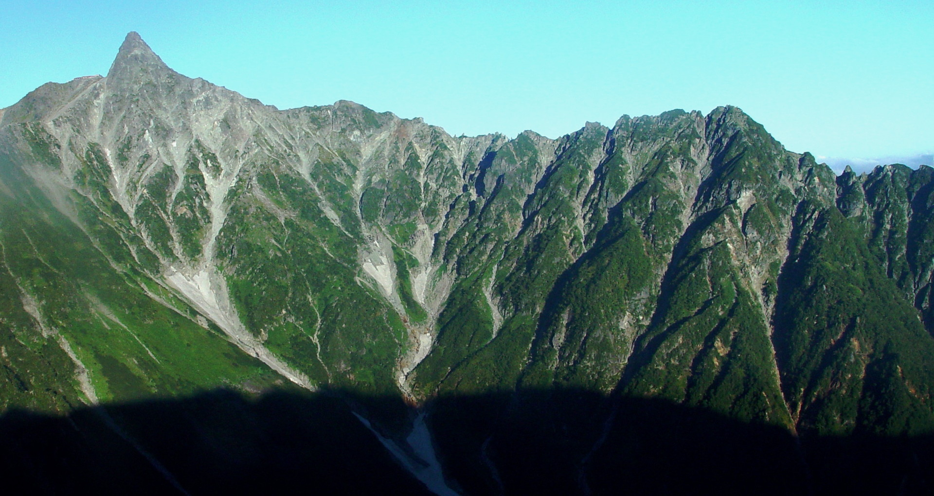 Mount Yari from Mount Nishi